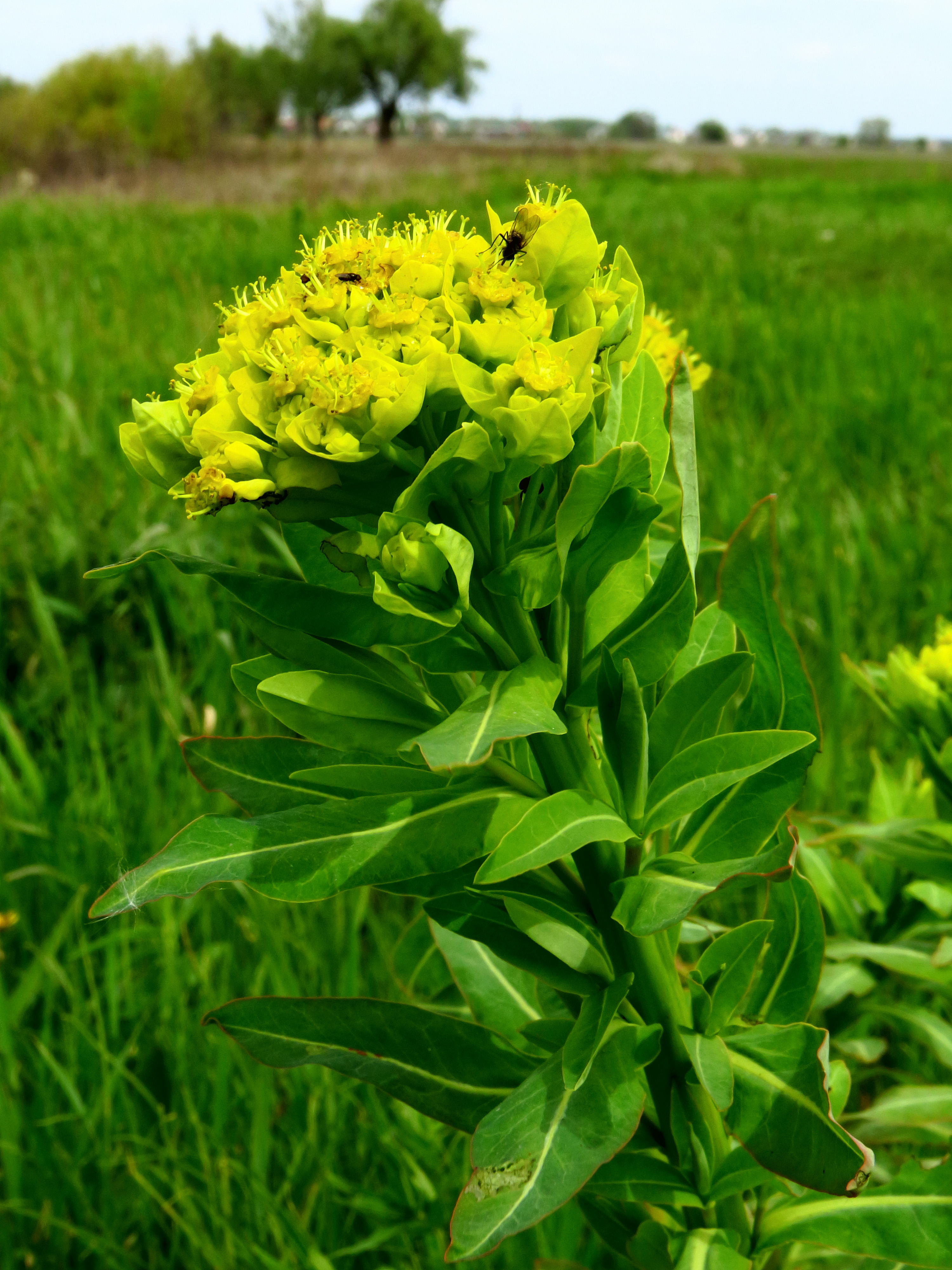 Euphorbia palustris near Zazymya, Brovary raion, Kiev oblast, Ukraine